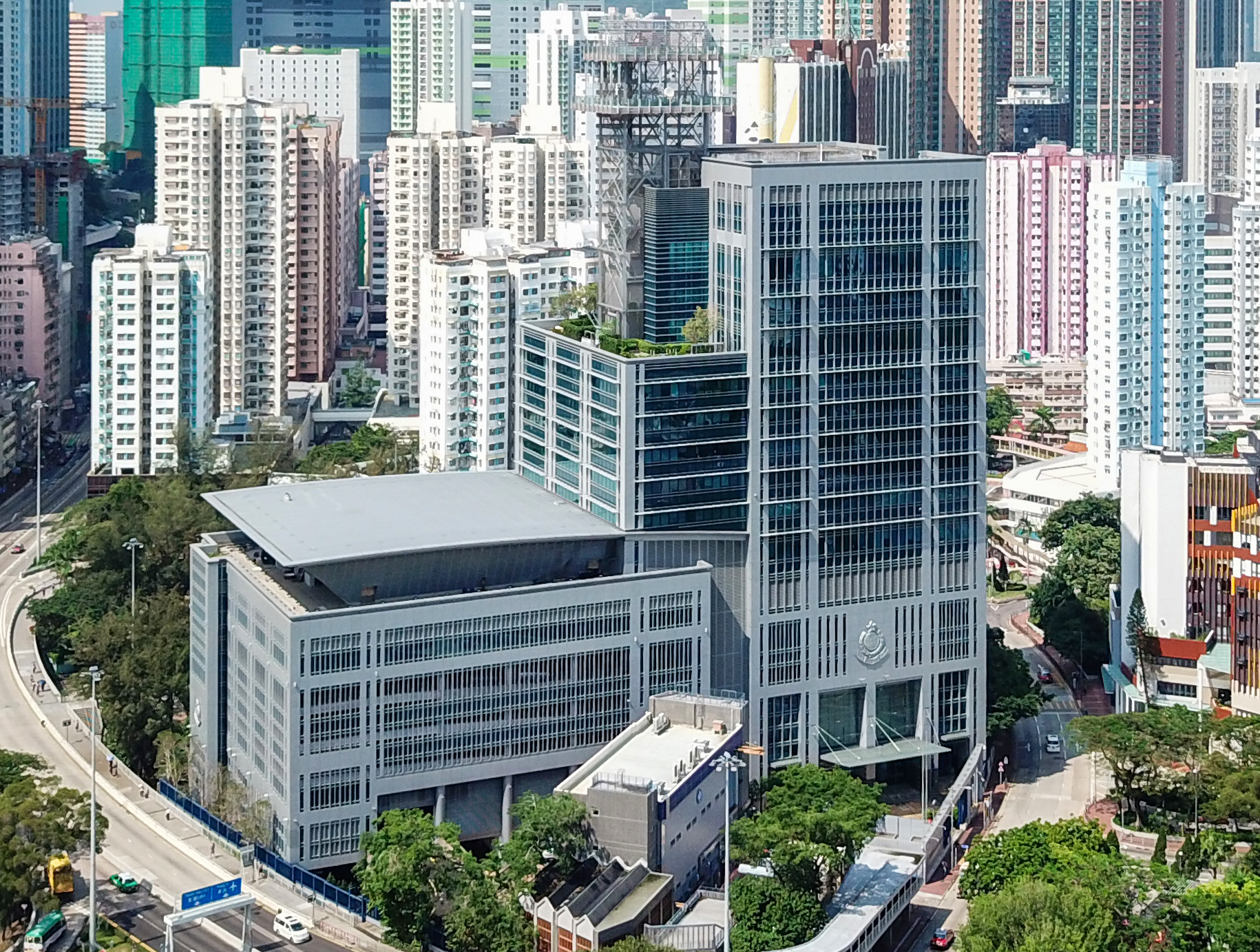 New Territories South Regional Police Headquarters and Operational Base